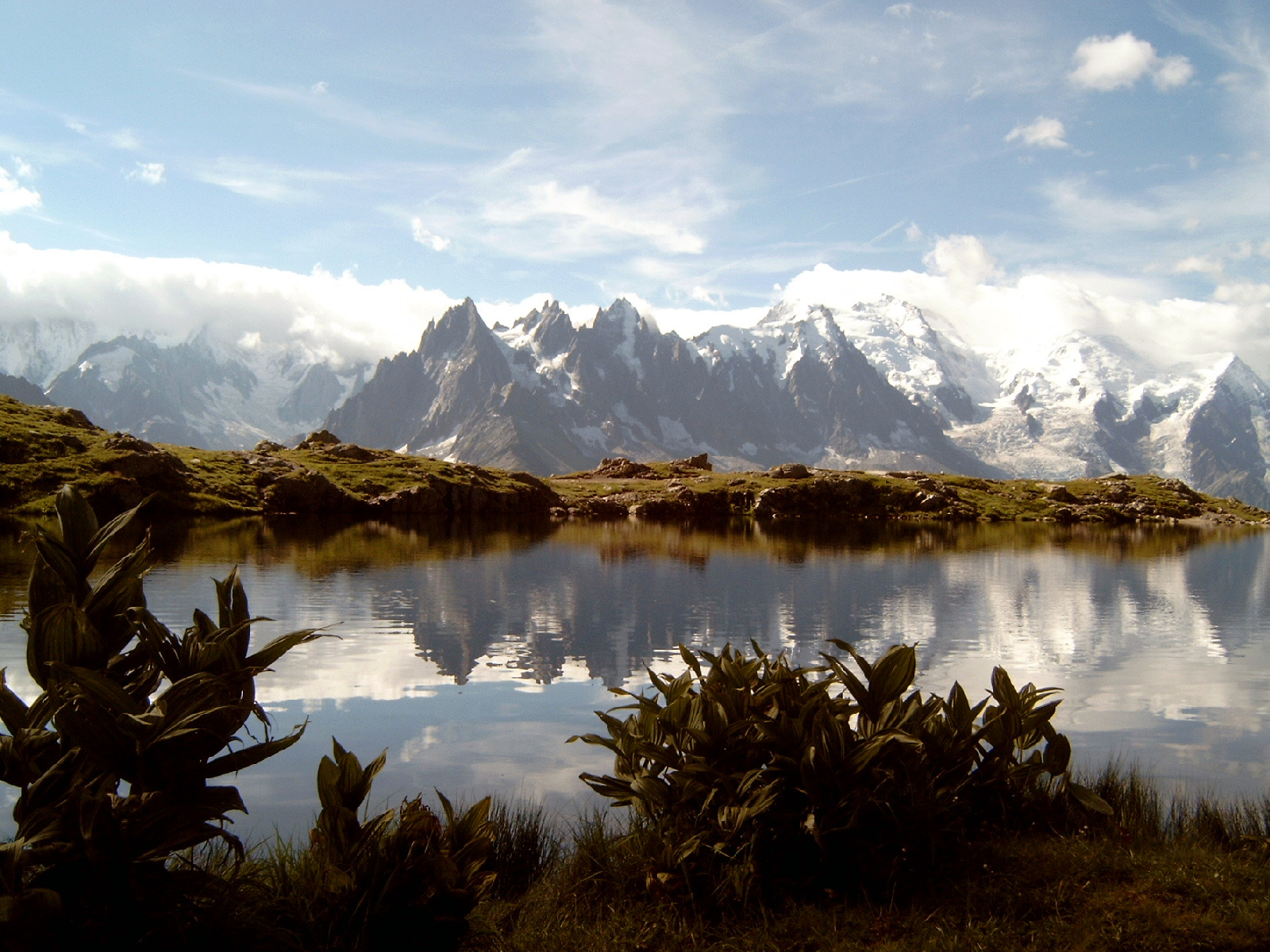 Mont Blanc with clouds as seen from Lacs de Cheserys, left Aiguilles de Chamonix